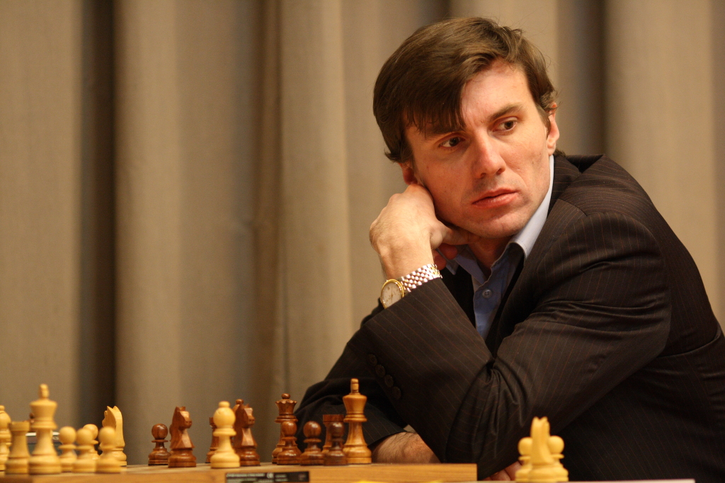 GM Vadim Malakhatko Belgium, 13. Int. Neckar-Open 2009